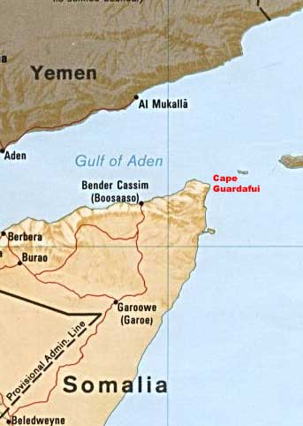 Map showing Cape Guardafui